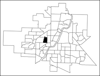 A map showing the location of the Westmount neighbourhood in relation to the other neighbourhoods in Saskatoon.